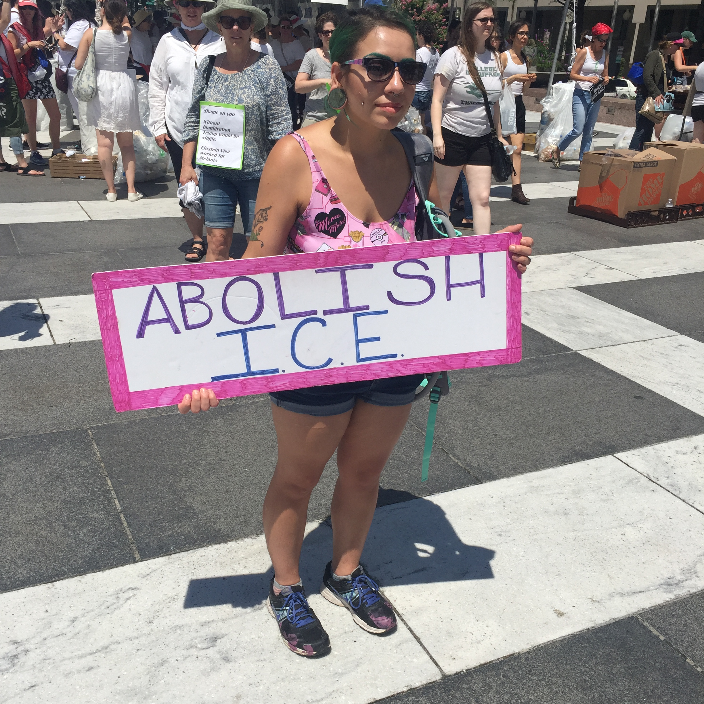 The Women Disobey protest against US Immigration and Customs Enforcement's (ICE) "zero tolerance" policy separation children and families at the US/Mexico border.